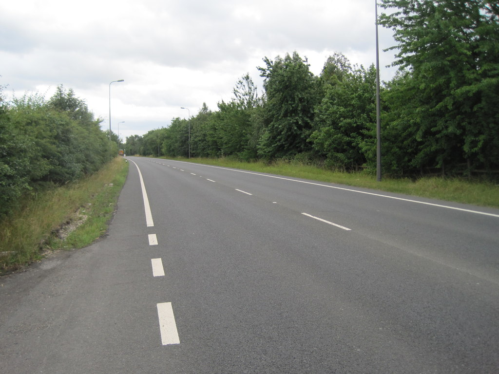 Riccall railway station (site), YorkshireOpened in 1871 by the North Eastern Railway on the line from Doncaster to York, this station closed to passengers in 1958 and completely in 1964. View south towards Selby and Doncaster. This part of the old East Coast Main Line became the A19 after the main line was diverted to the west of Selby in 1983.